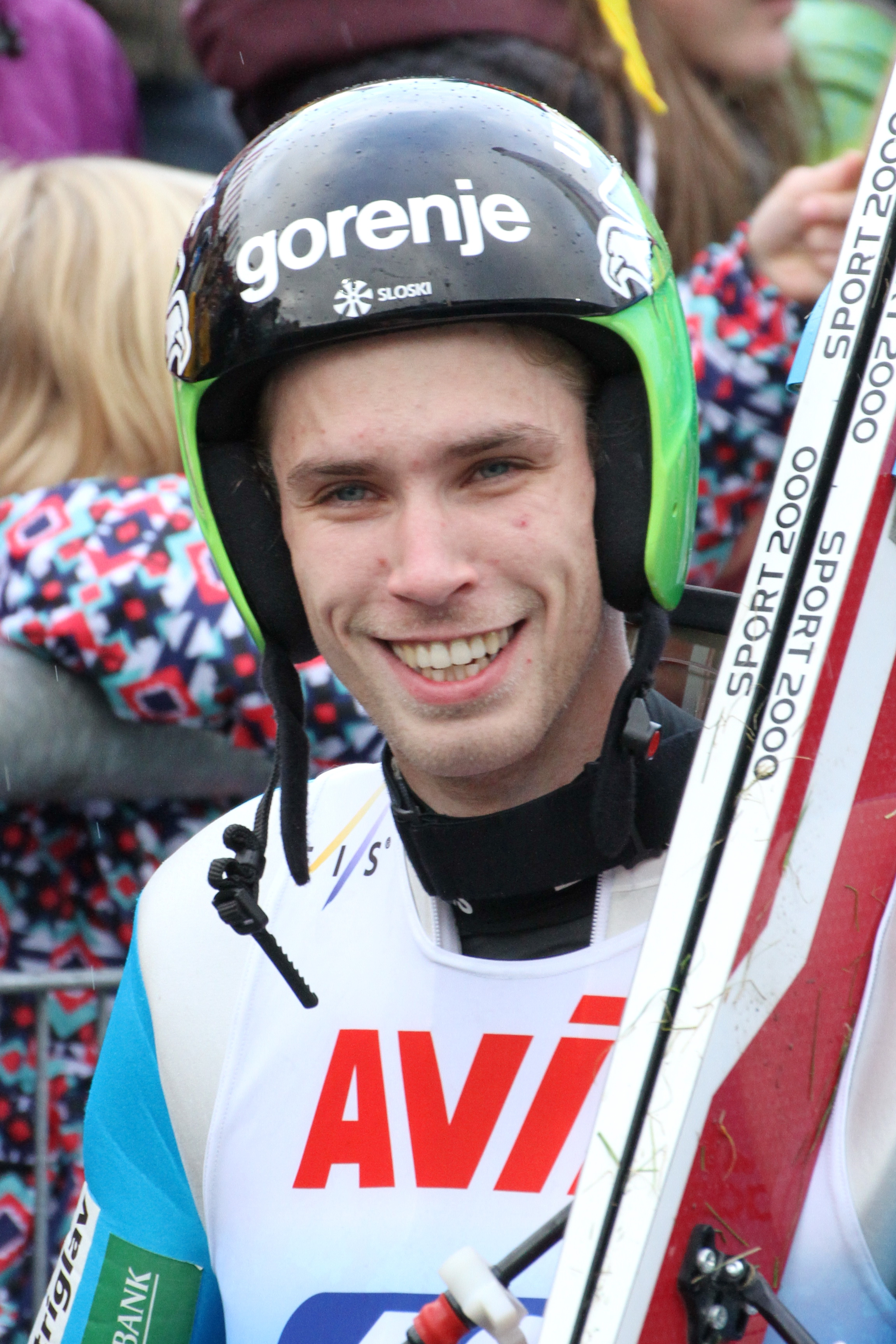 FIS Ski Jumping Summer Grand Prix Klingenthal 2017 on 2017-10-03 Anže Semenič